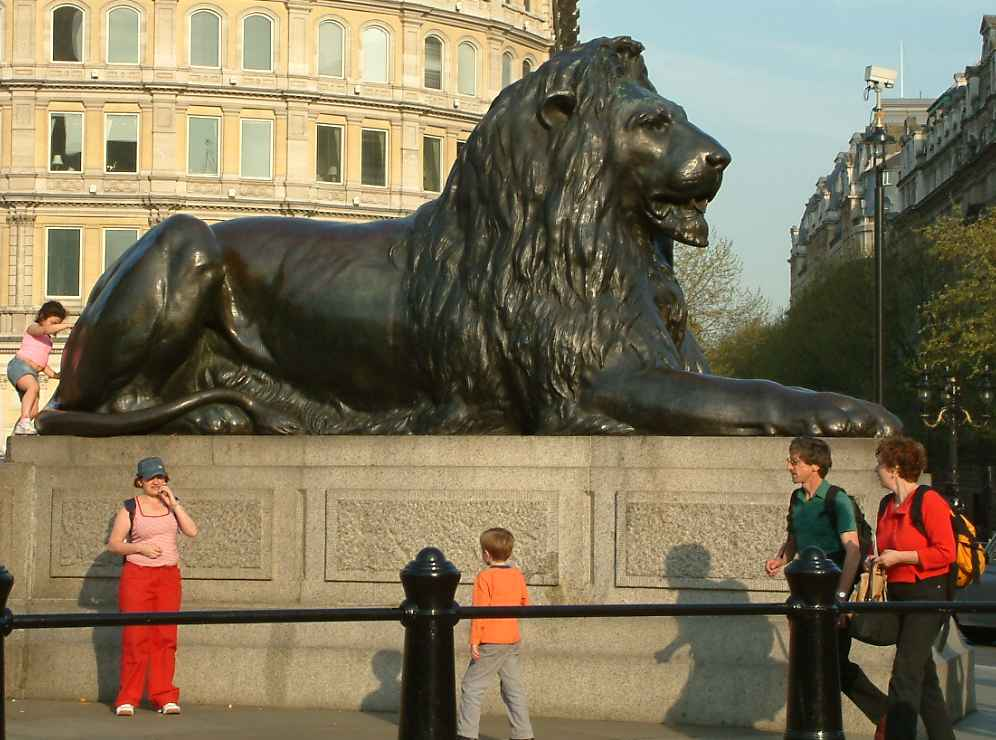 Lion at Nelson's Column - Trafalgar Square, - London - England - 24/04/04 One of the four Lions guarding Nelson's Column, Trafalgar Square, London. The lions were designed by Sir Edward Landseer, and are 6.1 metres (20 feet) long and 3.4 metres high (on their plinths).